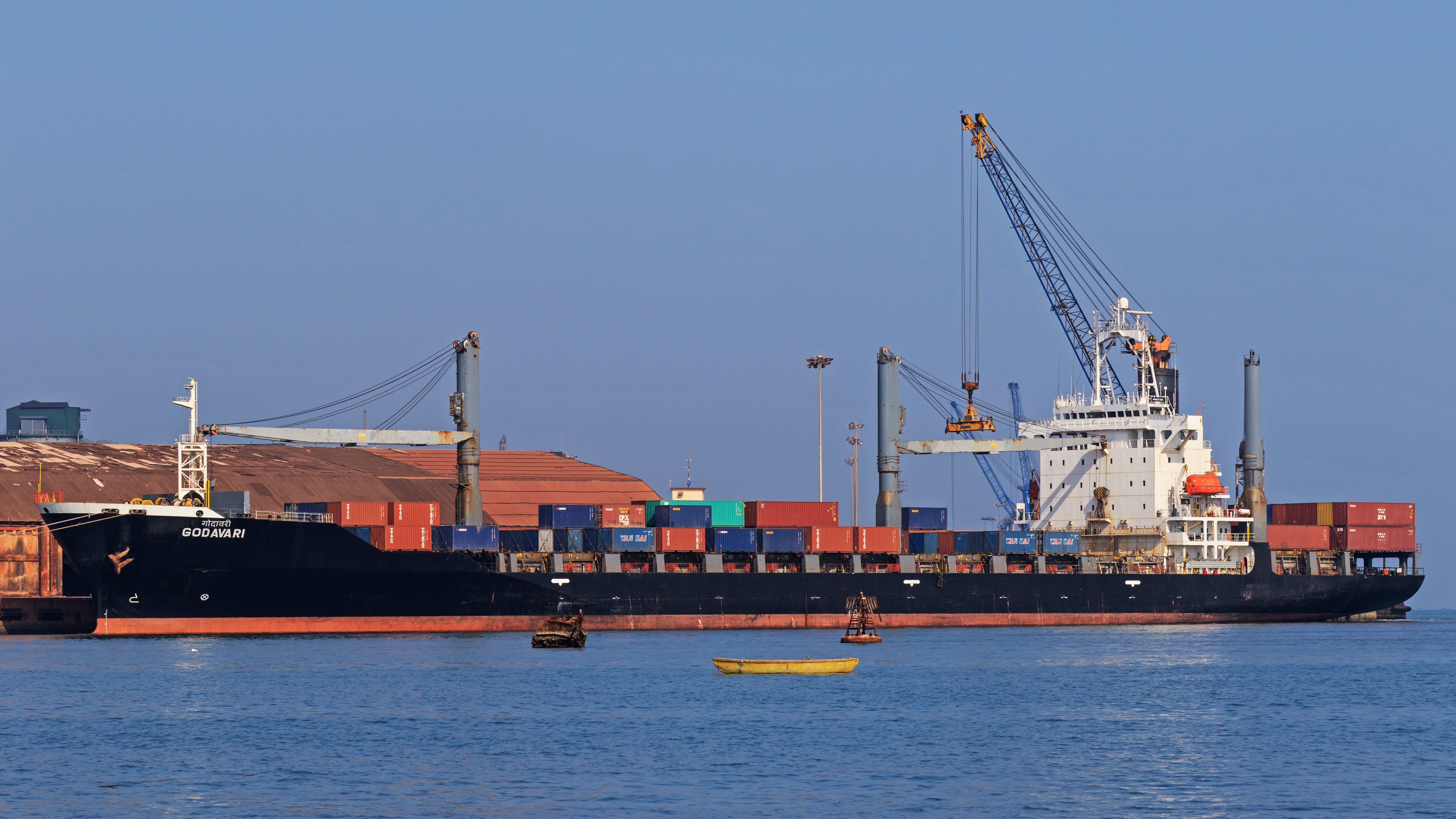 Mormugao Harbour: view from the beach in Vaddem / Vasco da Gama (Goa), India